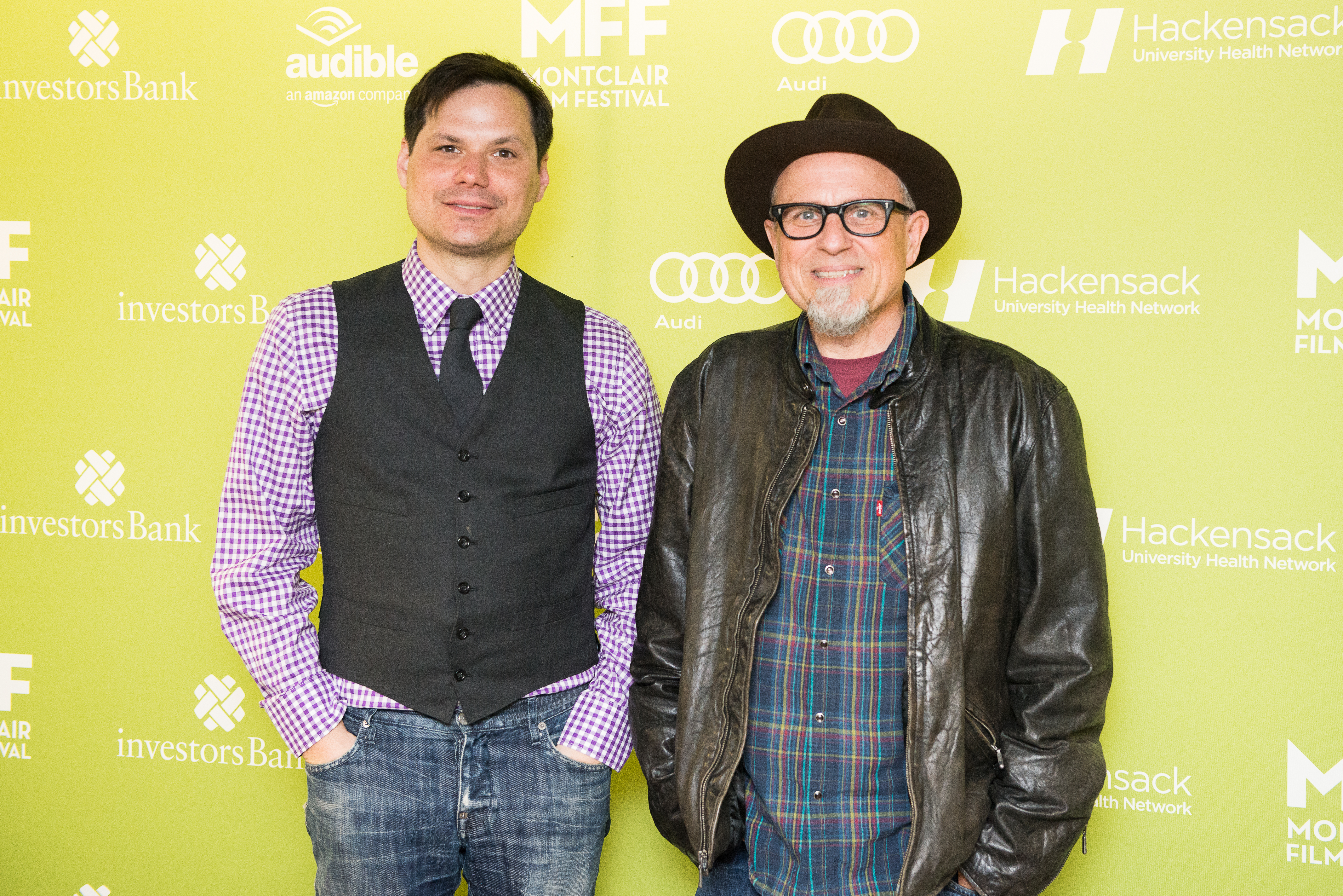 Kristen Thorne / How to Be Amazing / Montclair Film Festival 2015